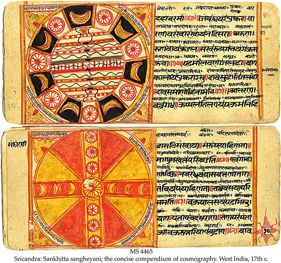 [1] MS in Jain Maharastri Prakrit and Sanskrit on paper, Gujerat or Rajastan, West India, 17th c., 35 ff., 11x25 cm, single column, (8x22 cm), 7 lines in Jain Devanagari book script, punctuation and verses in red, red and yellow margin lines, 33 high quality miniatures, maps and diagrams in colours. The text is a much studied short summary of the fundamentals of Jaina cosmography and geography, commonly known as the Sangrahaninirayana, Laghusangrahani, Sangrahaniratna or Trailokyadipika, the Illuminating Gloss on the Tripartite World. The diagrams explain why the duplicate sun and moon orbiting the central mountain Merle according to Jaina cosmographers, are never observed simultaneously. Sricandra (12-13th c.) monk of the Harsapuriya Gaccha of Ivetambara sect, and a pupil of Maladharin Hemacandra. The original text as published by the DLP with the commentary of Devabhadra, a disciple of the author, consists of 274 mnemonic gathas (stanzas), divided into 7 chapters.